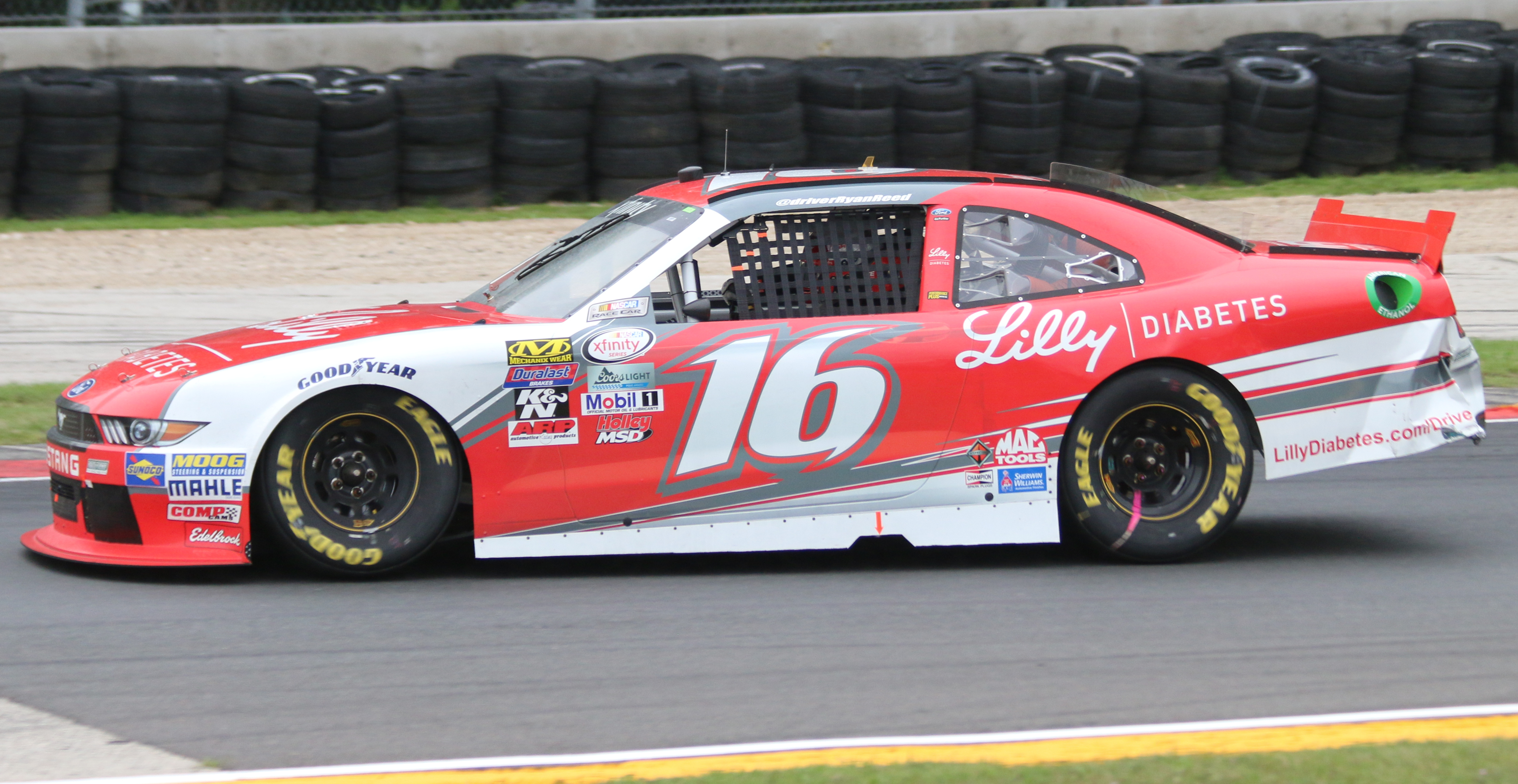 The Ford Mustang of Ryan Reed at the NASCAR Xfinity Series Road America 180.